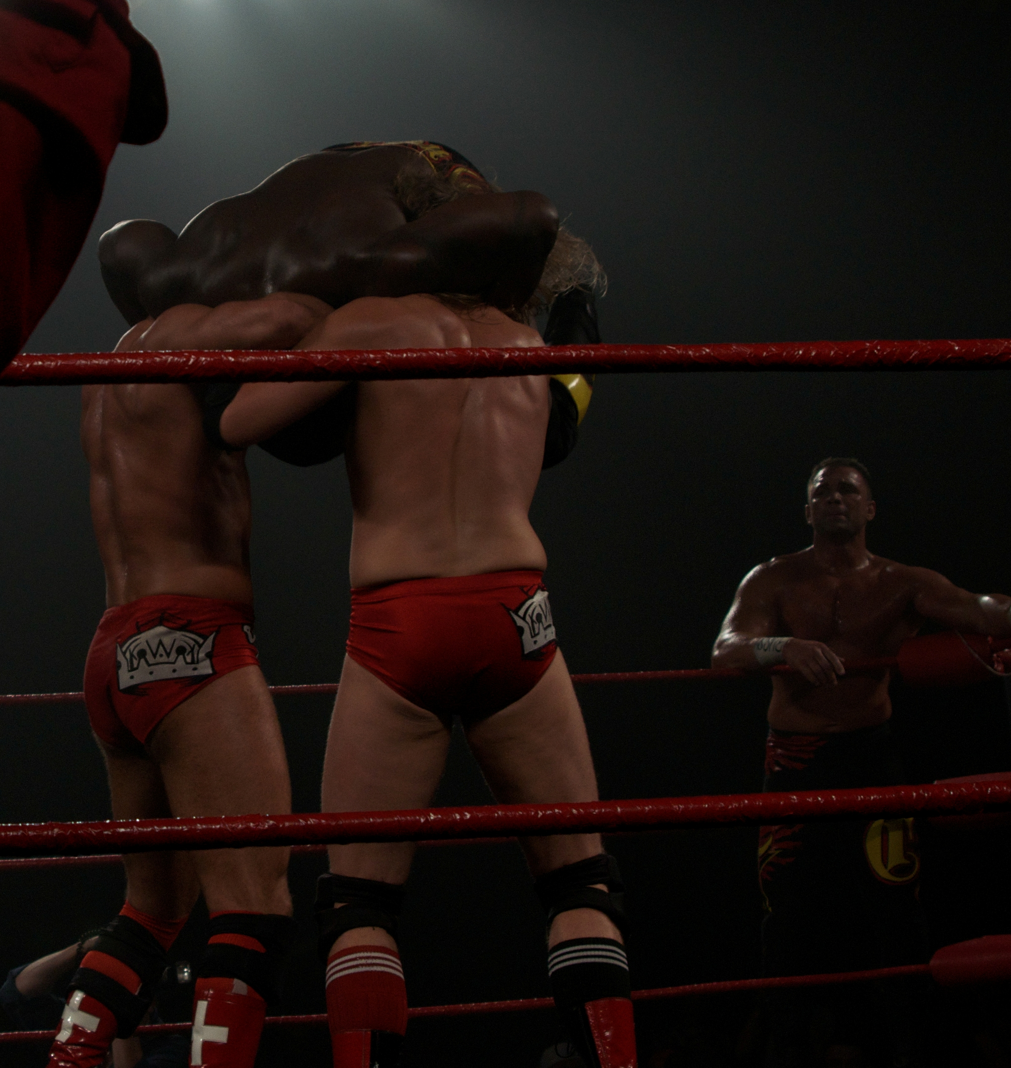 Kings of the Wrestling performing a double suplex on Shelton Benjamin